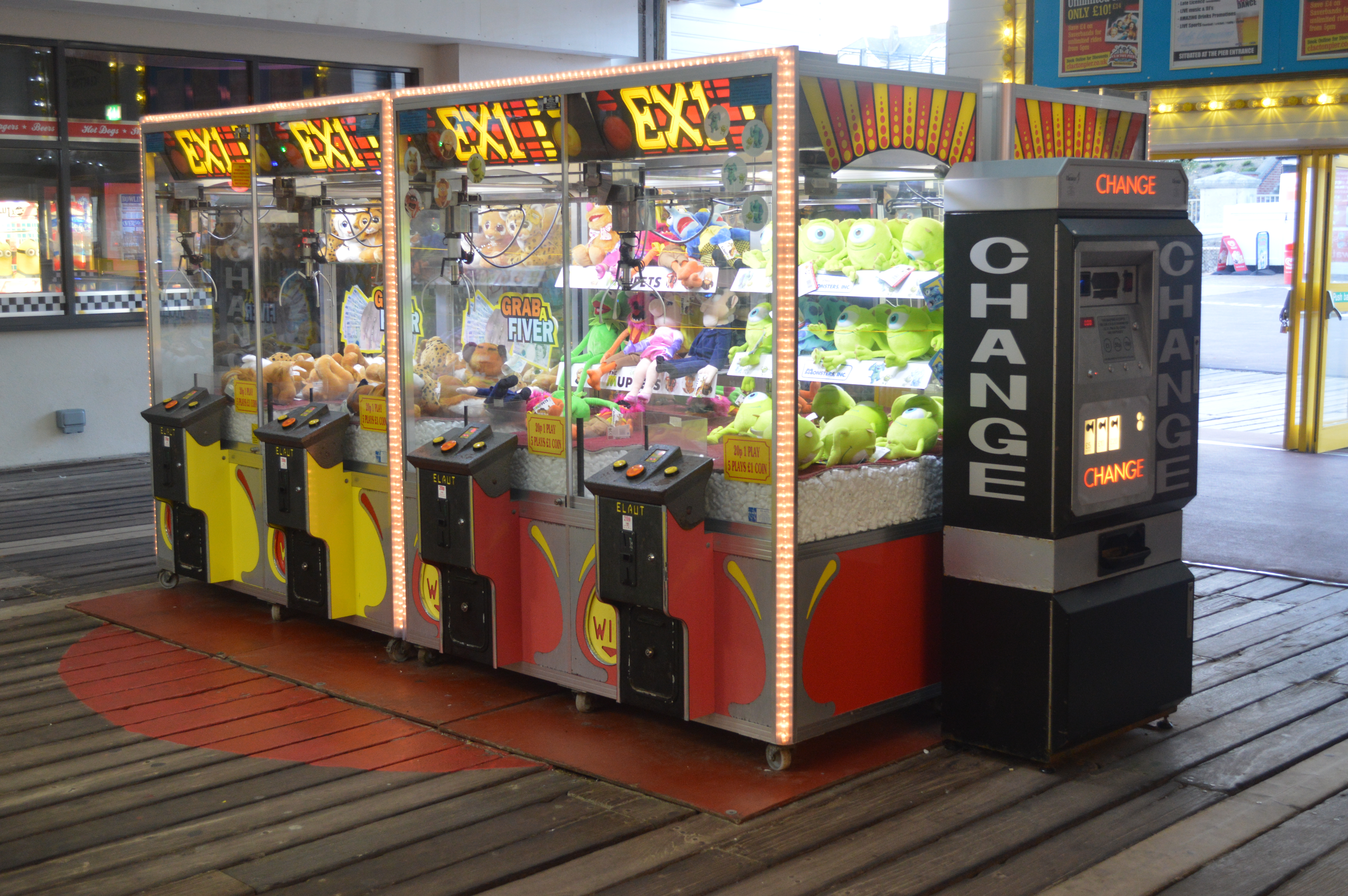 Claw crane arcade machines on Clacton Pier.